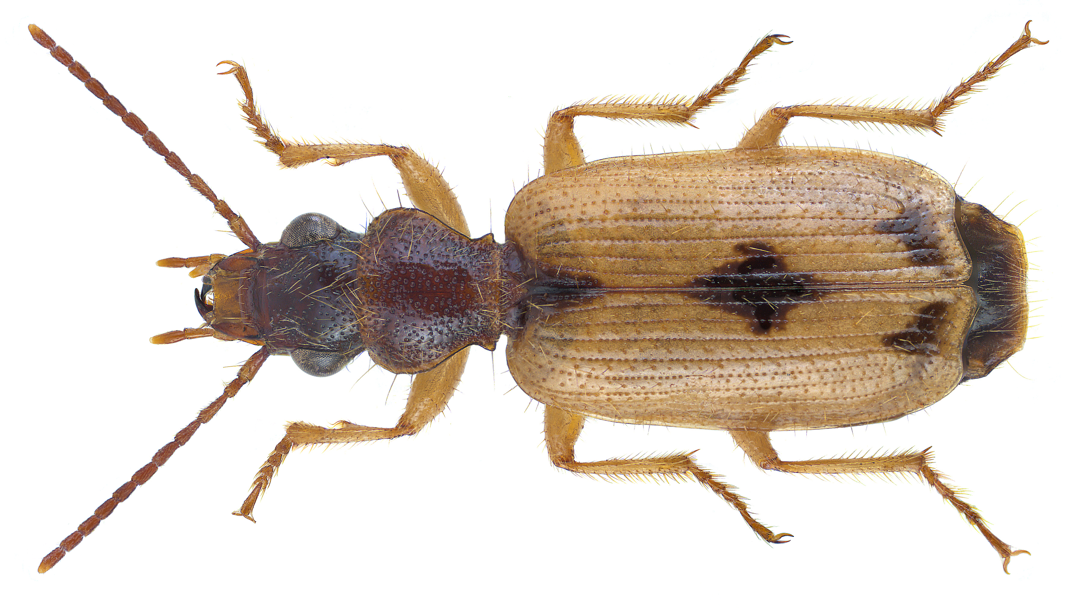 Trichis maculata Klug, 1832 Family: Carabidae Size: 7,3 mm Location: Senegal, M`Bour, environment Club Aldiana Distribution: Arab Emirates, Afghanistan, Algeria, Cyprus, Egypt, Greece, Iran, India, Iraq, Israel, Kazakhstan, Morocco, Pakistan, Spain, Syria, Turkmenistan, Turkey, Tunisia, Uzbekistan, West Africa (Senegal) leg. U.Schmidt, 23.V.-4.VI.1991; det. M.Baehr, 2015 Photo: U.Schmidt, 2016